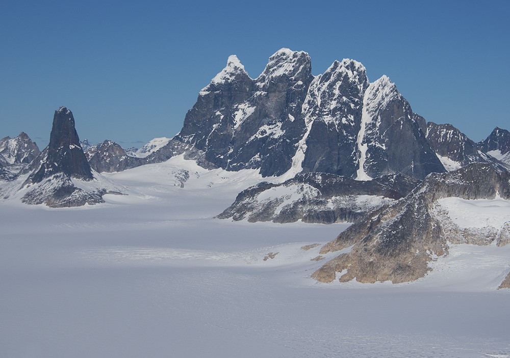 Over the Juneau Icefield, City and Borough of Juneau, Alaska